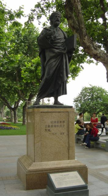 Statue of Marco Polo in Hangzhou, China, near the West Lake